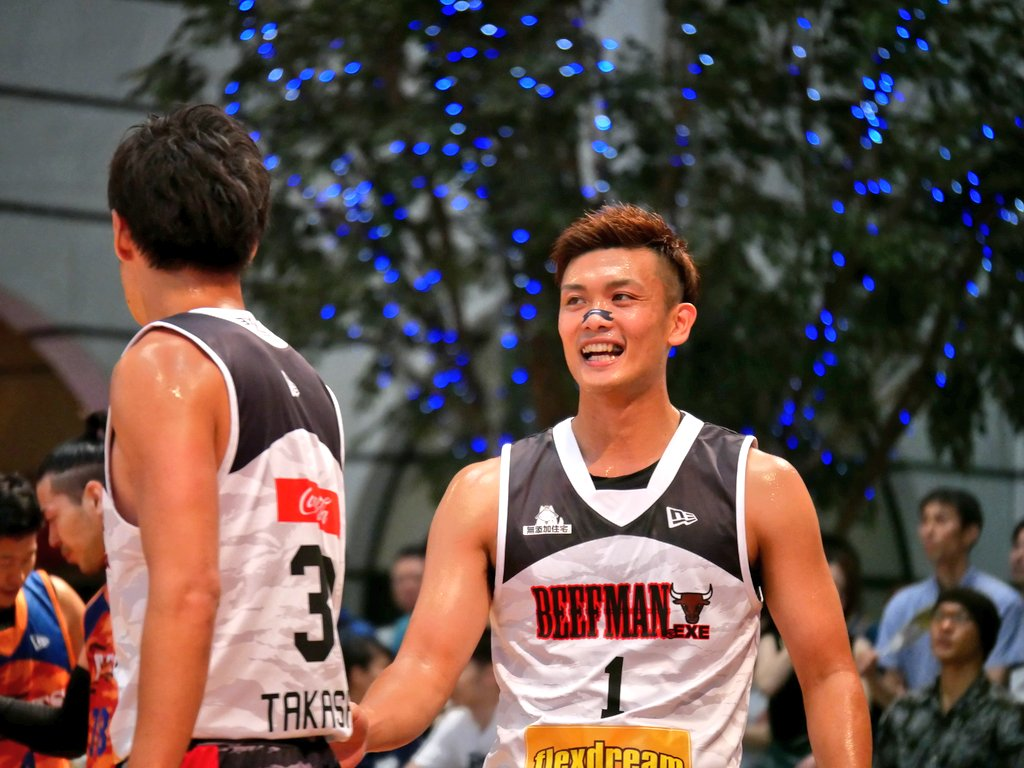 3x3 PREMIER.EXE2018 BEEFMAN.EXE